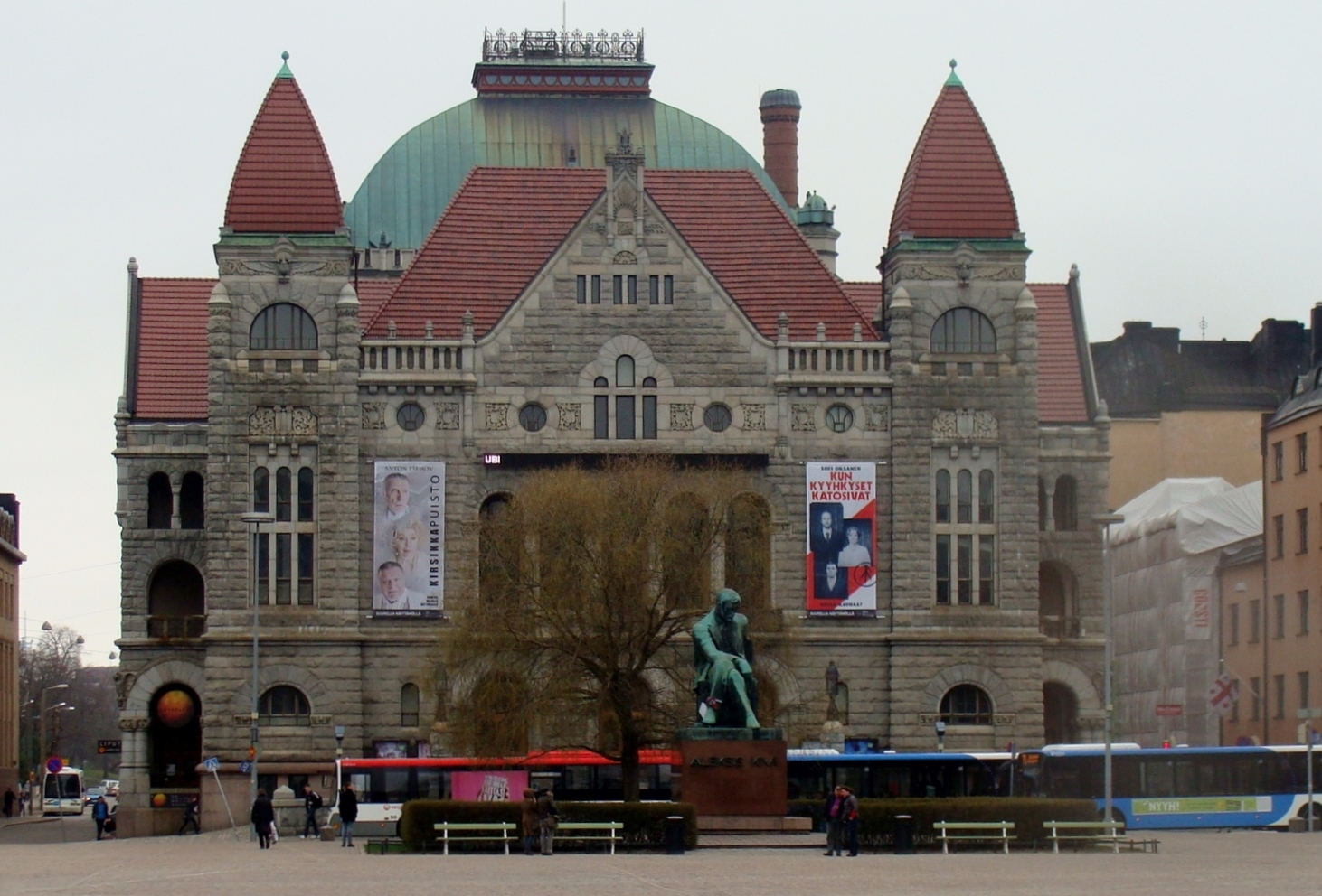 Finnish National Theatre in Helsinki